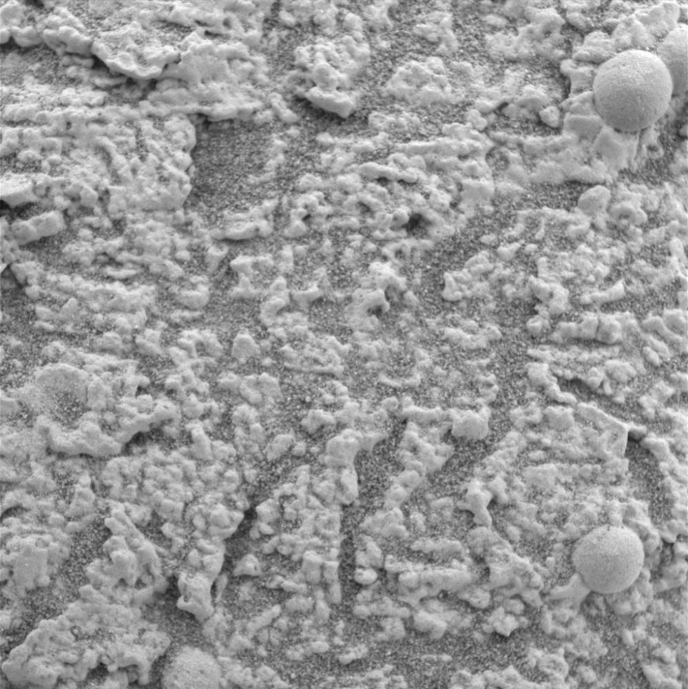 This image, taken by the microscopic imager on the Mars Exploration Rover Opportunity, shows an extreme close-up of the "El Capitan" region, part of the rock outcrop at Meridiani Planum, Mars. As seen in panoramic images of "El Capitan," this region appears laminated, or composed of layers of firmly united material. The upper left portion of this image shows how the grains of the region might be arranged in planes to create such lamination. At the upper right, in the zone surrounding two larger sphere-shaped particles, this image also shows another apparent characteristic at the scale of individual grains. The granularity of the matrix -- the rock in which the spherules are embedded -- is modified near the spherules compared with grains farther from the spherules. Around the upper spherule, the grain size is increased. This change in grain size might represent a "reaction rim," a feature produced by fluid interaction with the matrix material adjacent to the spherule during the growth of the spherule.